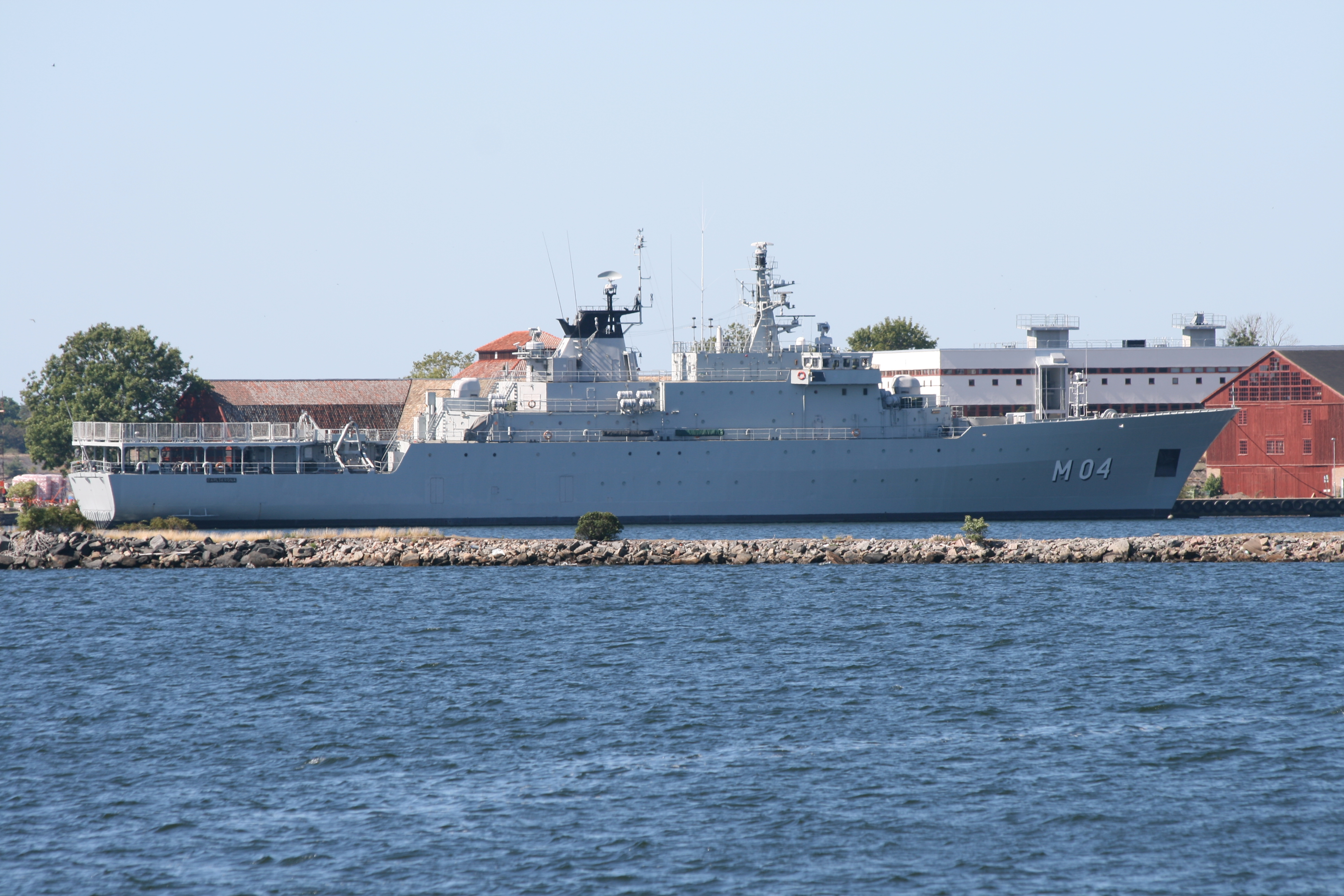 The naval ship HMS Carlskrona (M04) of the Swedish Navy, docked at the naval port of Karlskrona, Sweden.